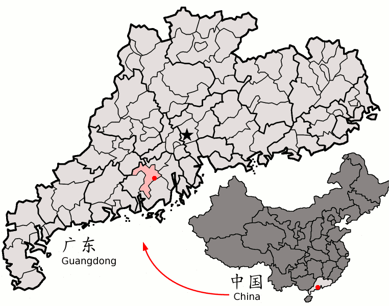 Location of Kaiping city (red) and Kaiping district (pink) within Guangdong province of China